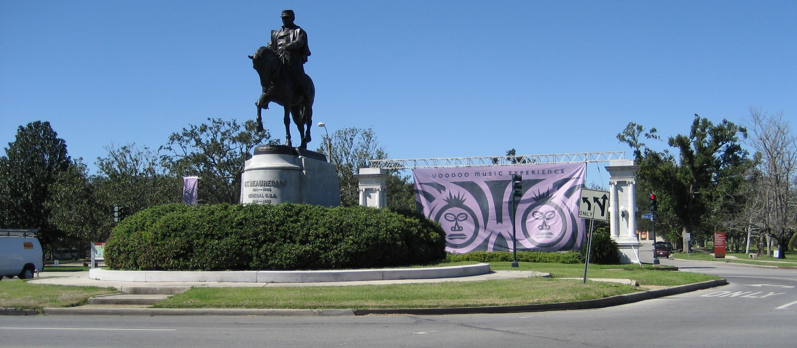 New Orleans: Entrance to City Park at Esplanade & Carrollton Avenue, with statue of P.G.T. Beauregard by Alexander Doyle and banners for the 2006 Voodoo Music Experience being held there at the time.